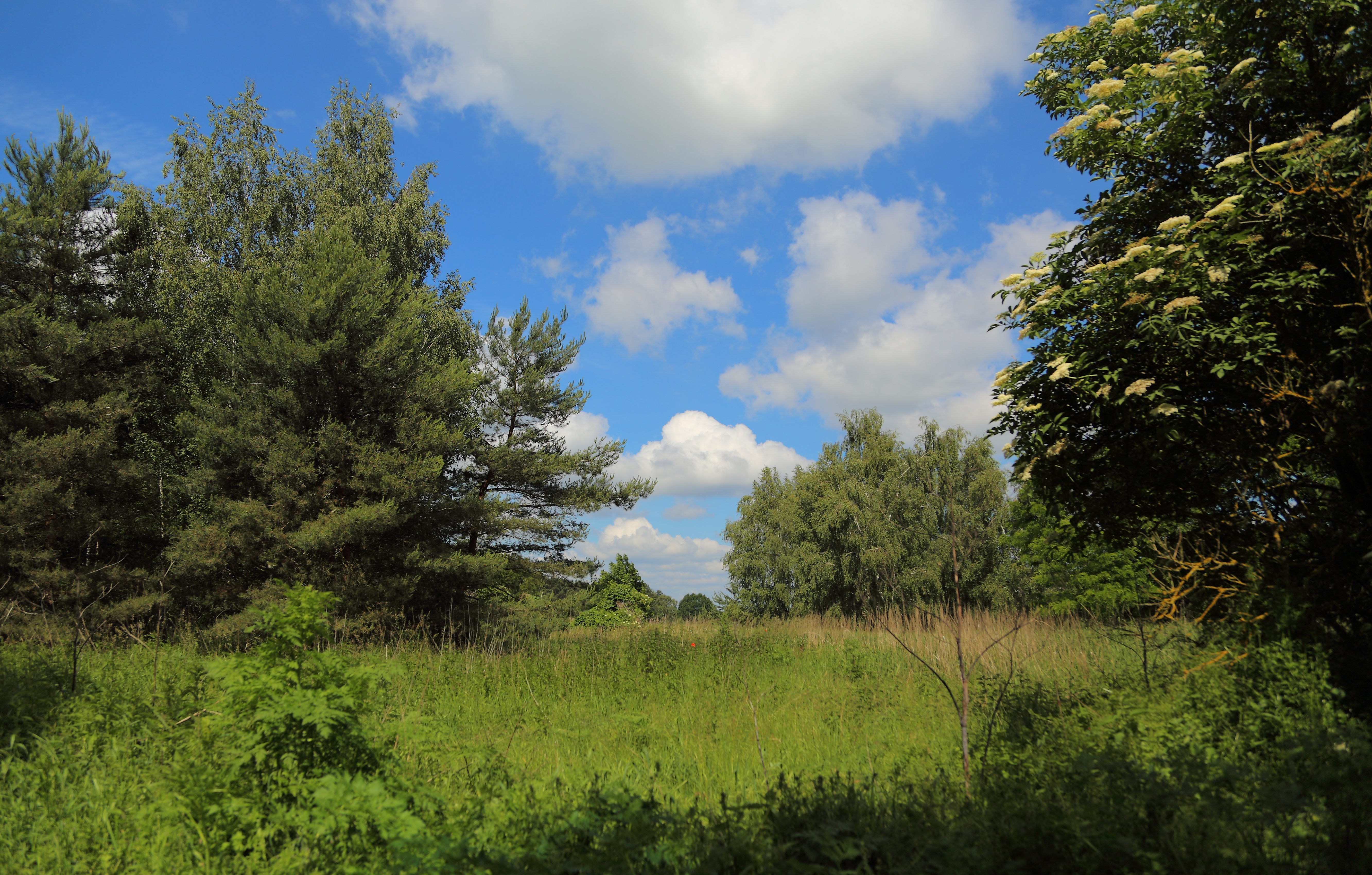 The former vineyard Neu Zaucher Weinberg between Neu Zauche and Straupitz, Landkreis Dahme-Spreewald, Brandenburg, Deutschland. It is nowadays the centre of a nature reserve of the same name.